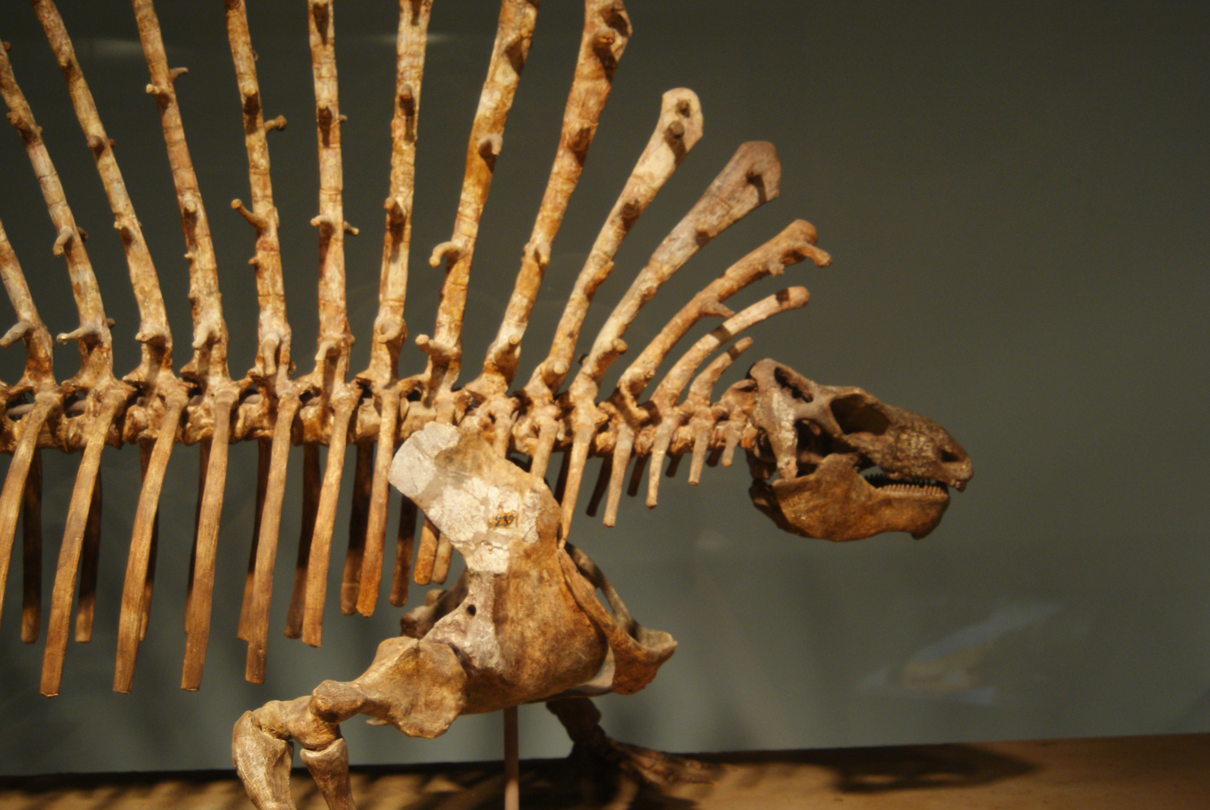 Edaphosaurus, a herbivorous eupelycosaur at the Evolving Planet Exhibit at the Field Museum, Chicago, IL